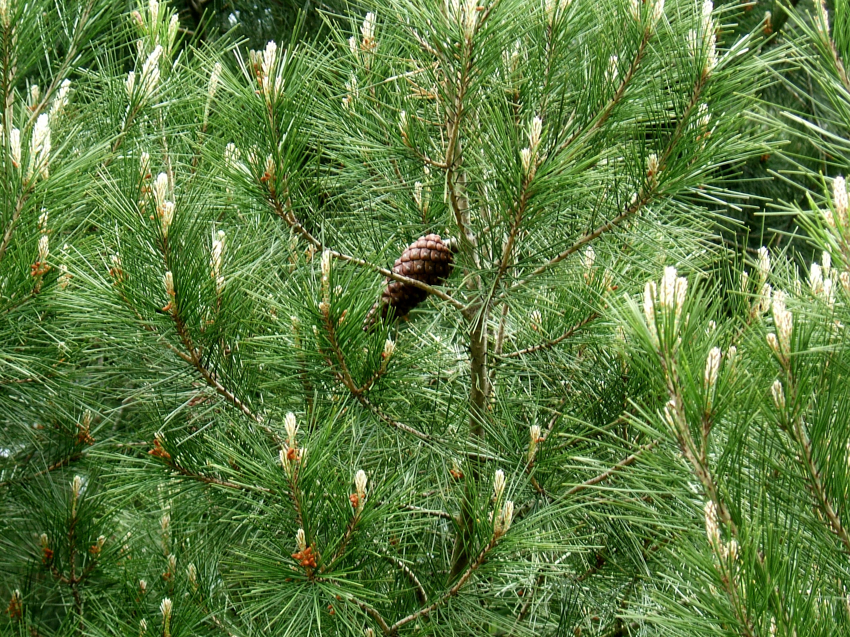 Pinus halepensis foliage and cone. Cultivated, Richardson Dees Park, Wallsend, Northumberland, UK